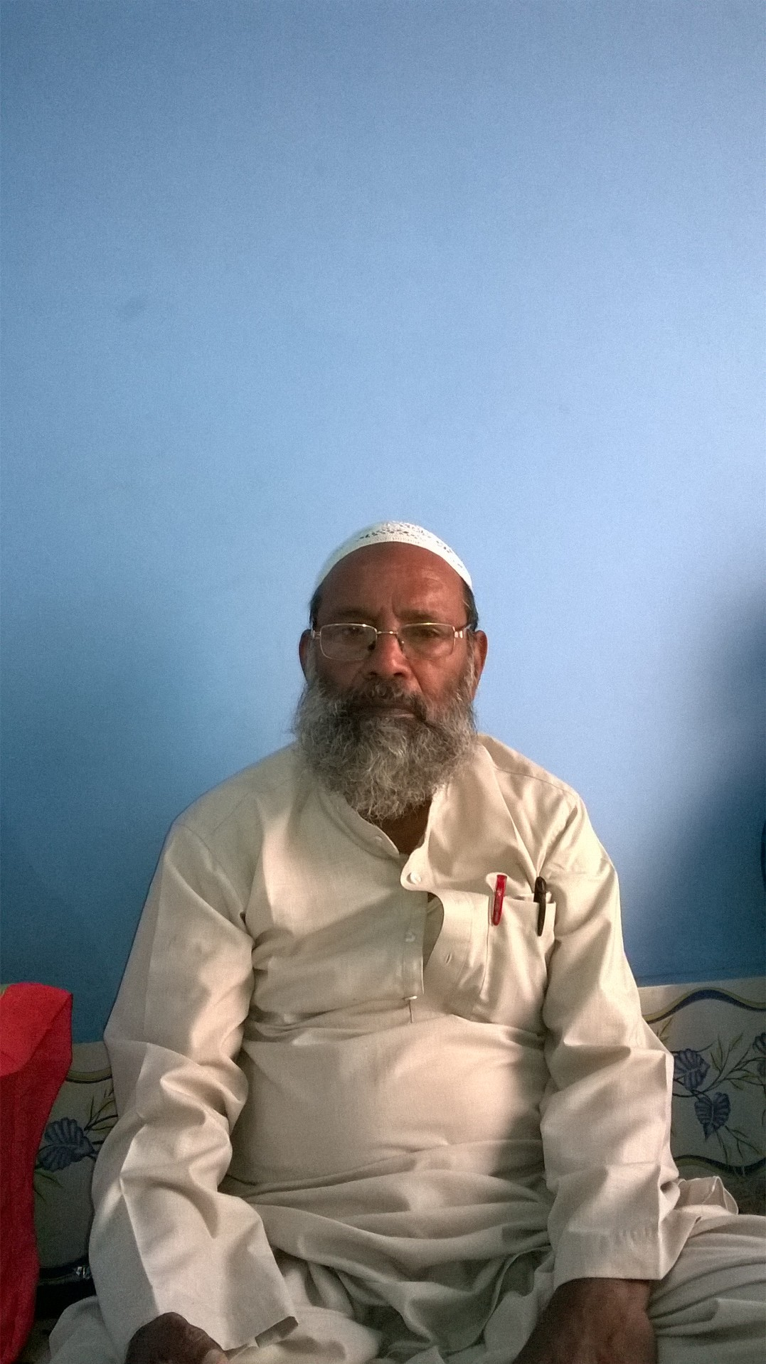 Abdul Lateef Zargar Shauq Nepali is leading poet of Urdu In Nepal living In Nepalgunj City District Banke Nepal